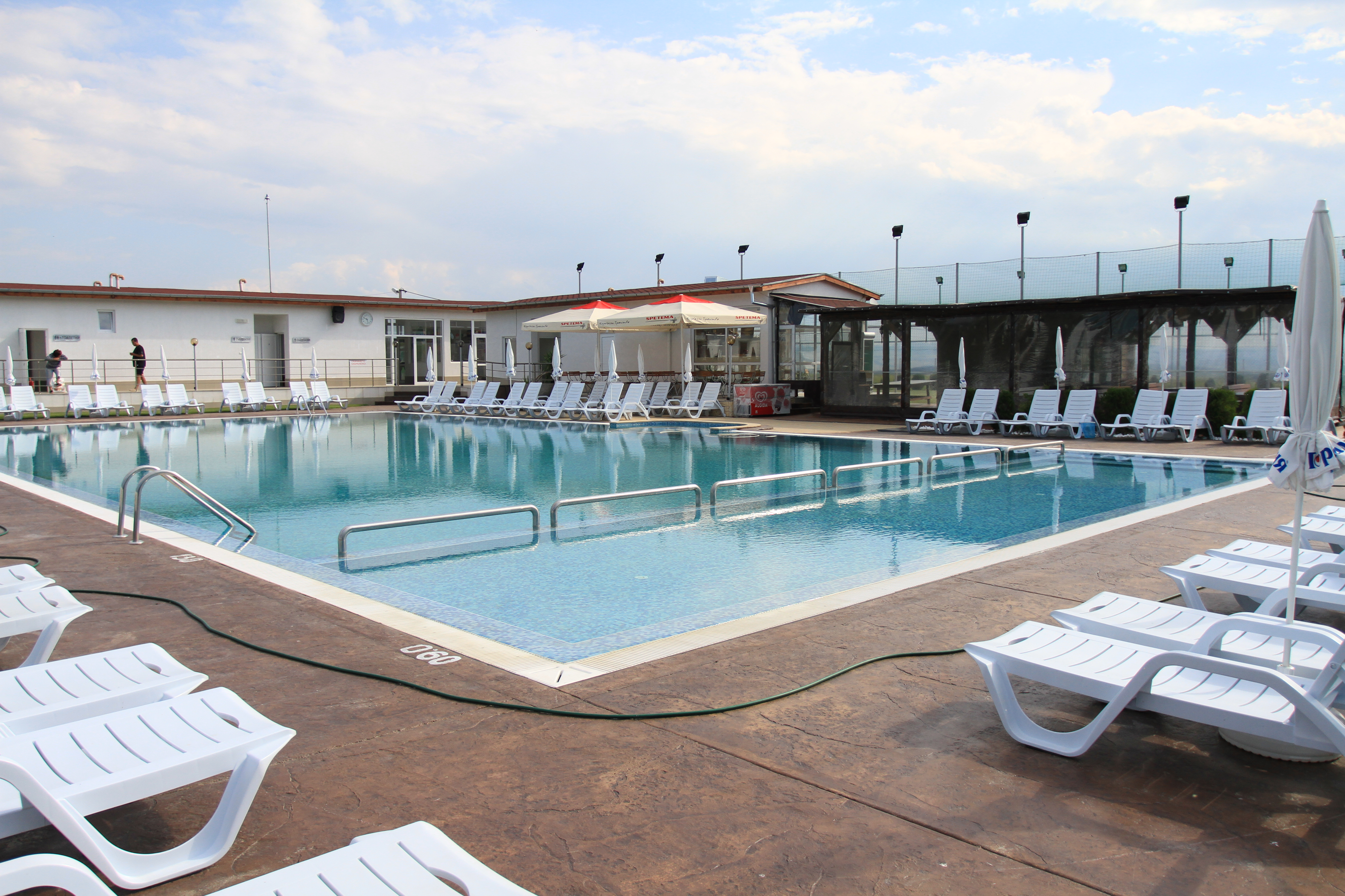 VLV Sport Galabovtsi, Slivnitsa